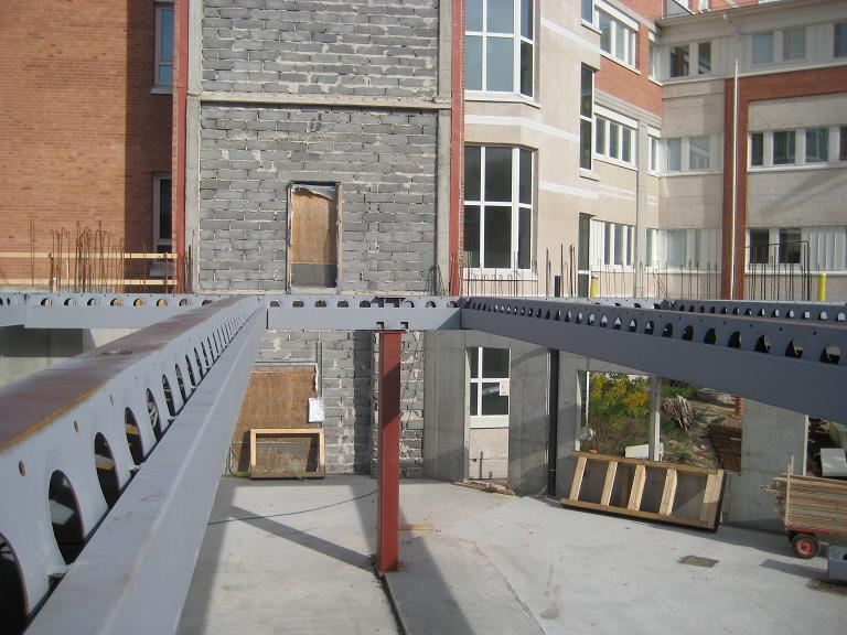 Deltabeams during assembly